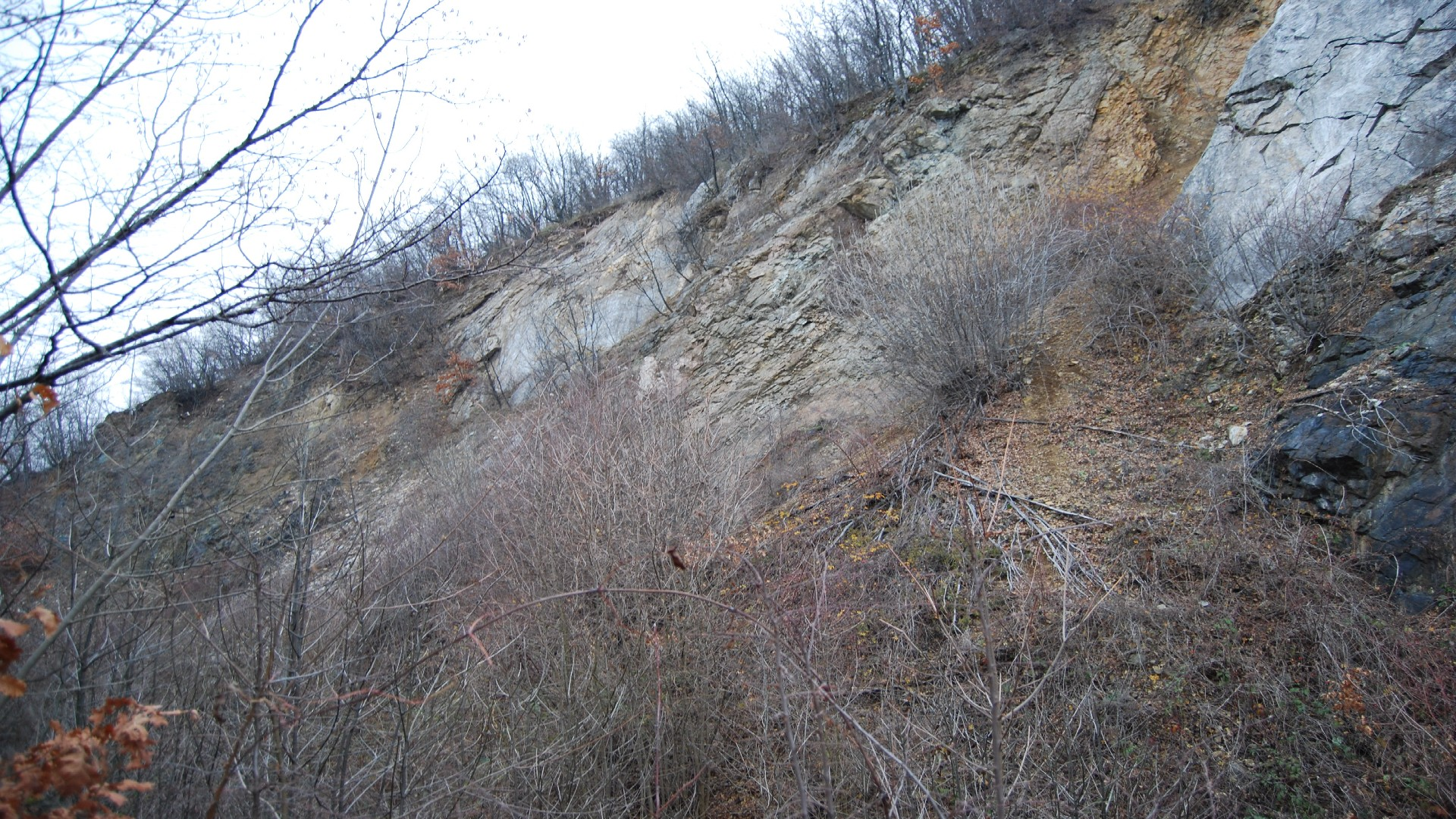 Archeological site Rudna glava- Majdanpek